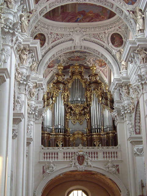 The main organ of St. Stephan's Cathedral in Passau, Germany. It is the largest organ outside of the United States and the largest church organ in the world.